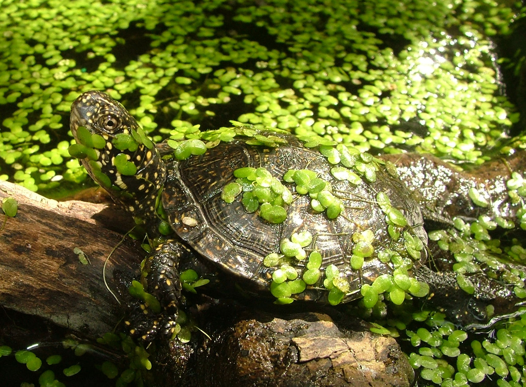 Emys orbicularis galloitalica, Tuscany, Italy